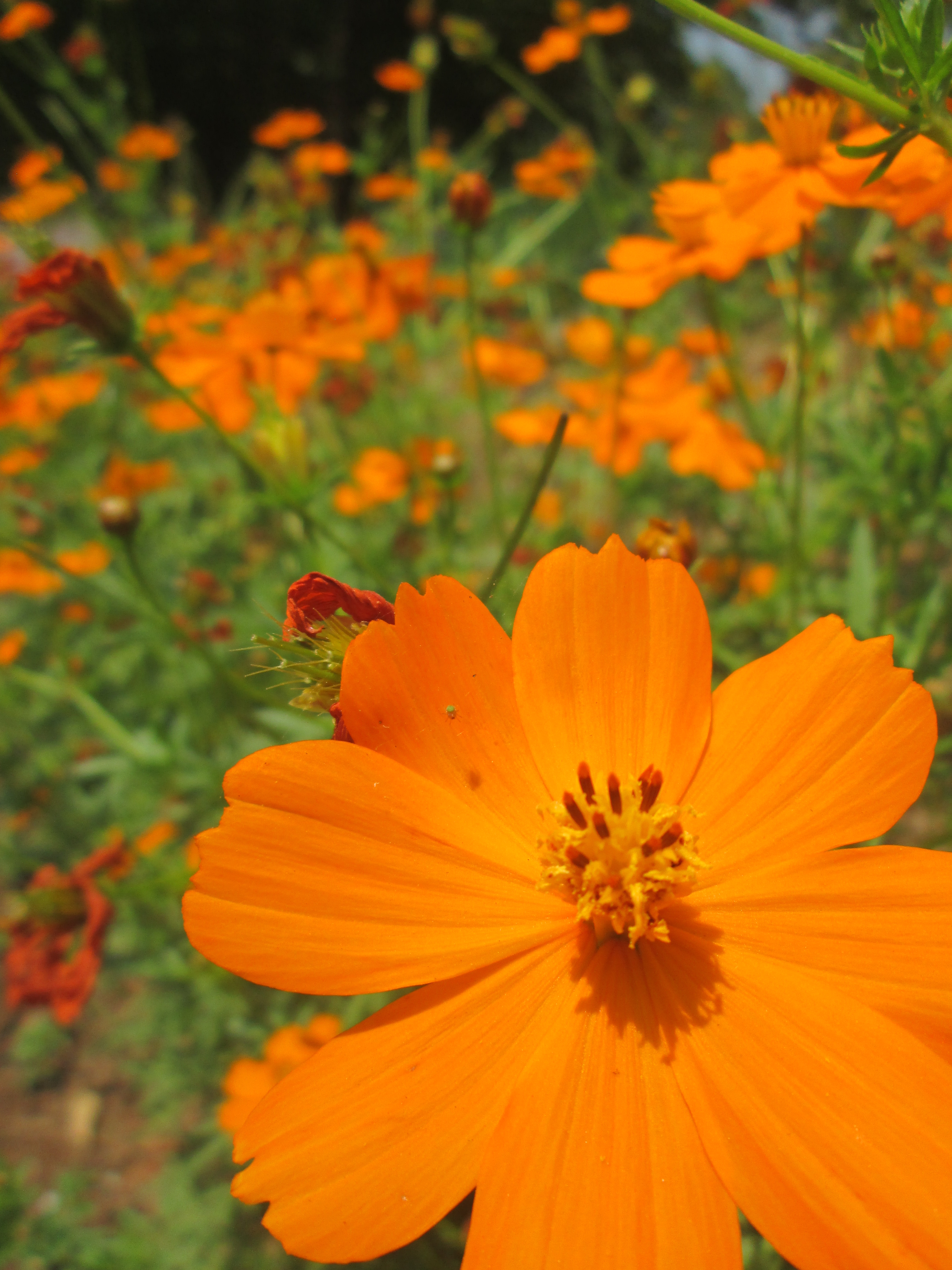 Cosmos flower